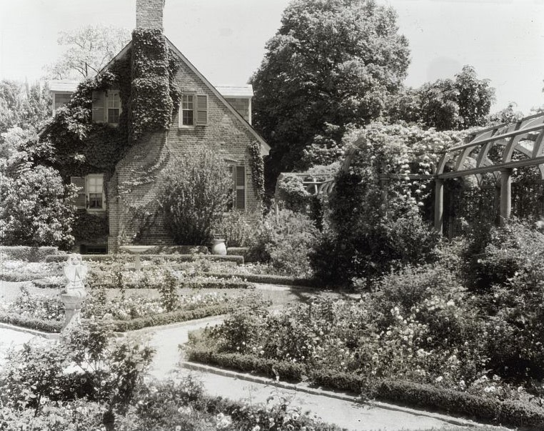 Title ["York Hall," Captain George Preston Blow house, Route 1005 and Main Street, Yorktown, York County, Virginia. Guest house in Memory Garden] Contributor Names Johnston, Frances Benjamin, 1864-1952, photographer Created / Published [1929] Subject Headings - Gardens--Virginia--Yorktown--1920-1930 - Houses--Virginia--Yorktown--1920-1930 Format Headings Lantern slides--1920-1930. Notes - Site History. House Architecture: Griffin & Wynkoop, for Captain George Preston Blow, additions to 18th century brick house, the home of Thomas Nelson Jr., 1738-1739, after purchase by Blow in 1914. Landscape: Charles Freeman Gillette, from 1914. Associated Name: Adele Matthiessen [Mr. George P.] Blow. Other: Also known as Nelson House. Today: Garden not extant; the house, without additions by Captain Blow, is a National Park Service site. - Title, date, and subject information provided by Sam Watters, 2011. - Forms part of: Garden and historic house lecture series in the Frances Benjamin Johnston Collection (Library of Congress). - Condition caution: unmounted slide. - Penciled on sleeve (not by FBJ?): no. # 570. Medium 1 photograph : glass lantern slide, b&w ; 3.25 x 4 in. Call Number/Physical Location LC-J717-X110- 143 [P&P] Repository Library of Congress Prints and Photographs Division Washington, D.C. 20540 USA Digital Id ppmsca 21848 //hdl.loc.gov/loc.pnp/ppmsca.21848 Library of Congress Control Number 2008680048 Reproduction Number LC-DIG-ppmsca-21848 (digital file from original item) Rights Advisory No known restrictions on publication. Online Format image Description 1 photograph : glass lantern slide, b&w ; 3.25 x 4 in. LCCN Permalink